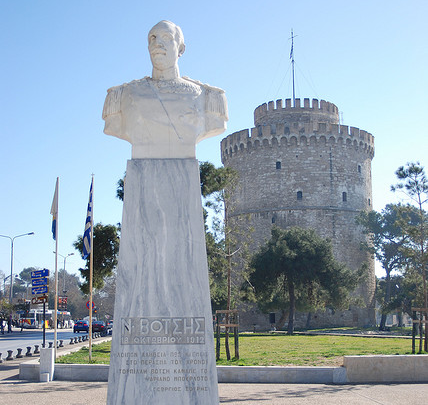 A bust of N. Votsis (by sculptor G. Dimitriadis (1880 – 1941)) in front of the White Tower of Thessaloniki, Greece.